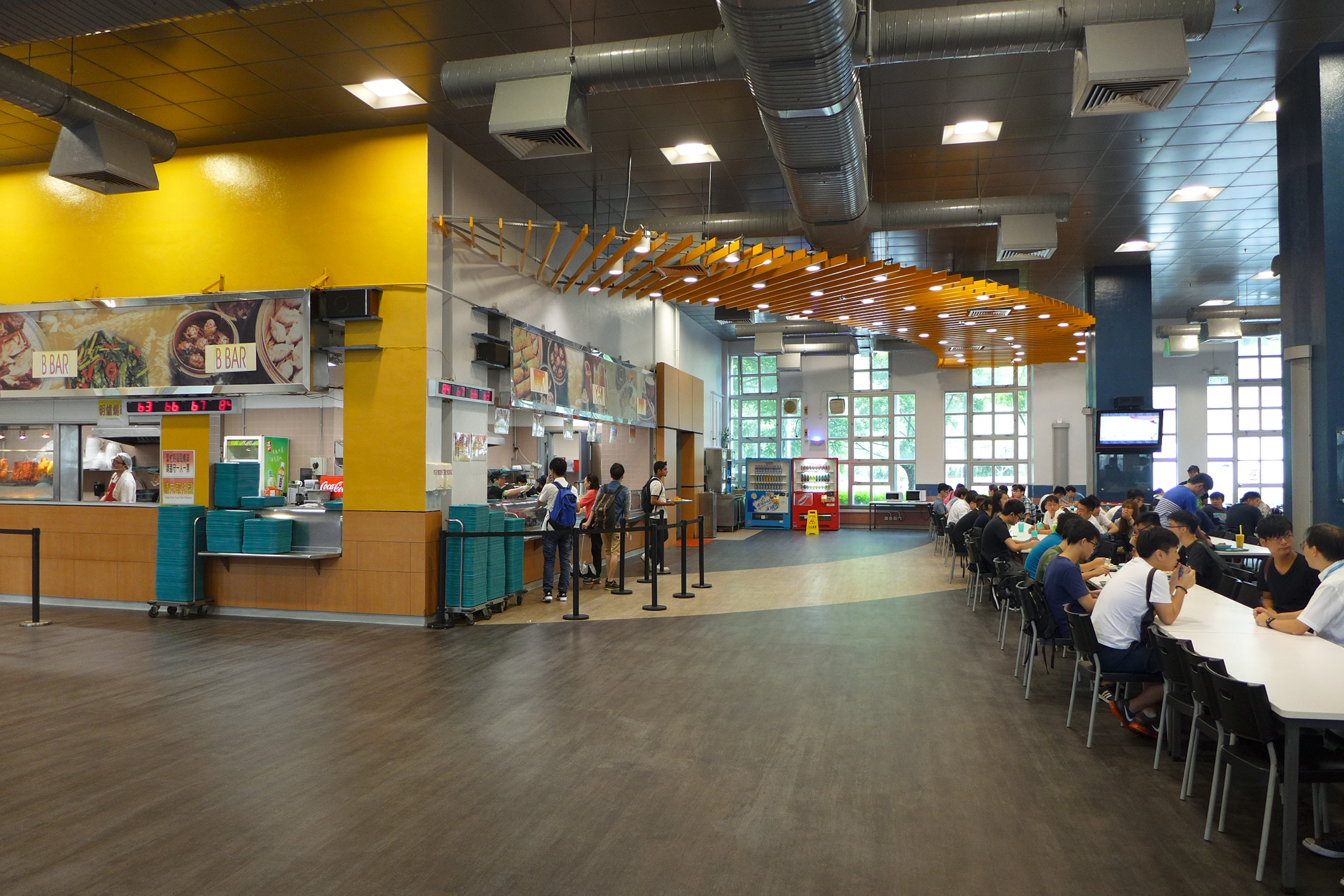 IVE Tsing Yi Campus Canteen